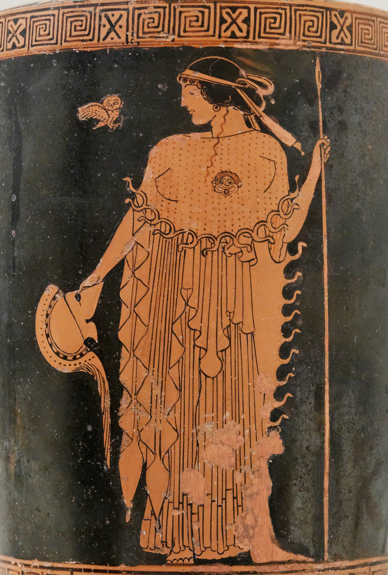 Athena holding a helmet and a spear, with an owl. Attic red-figure lekythos.